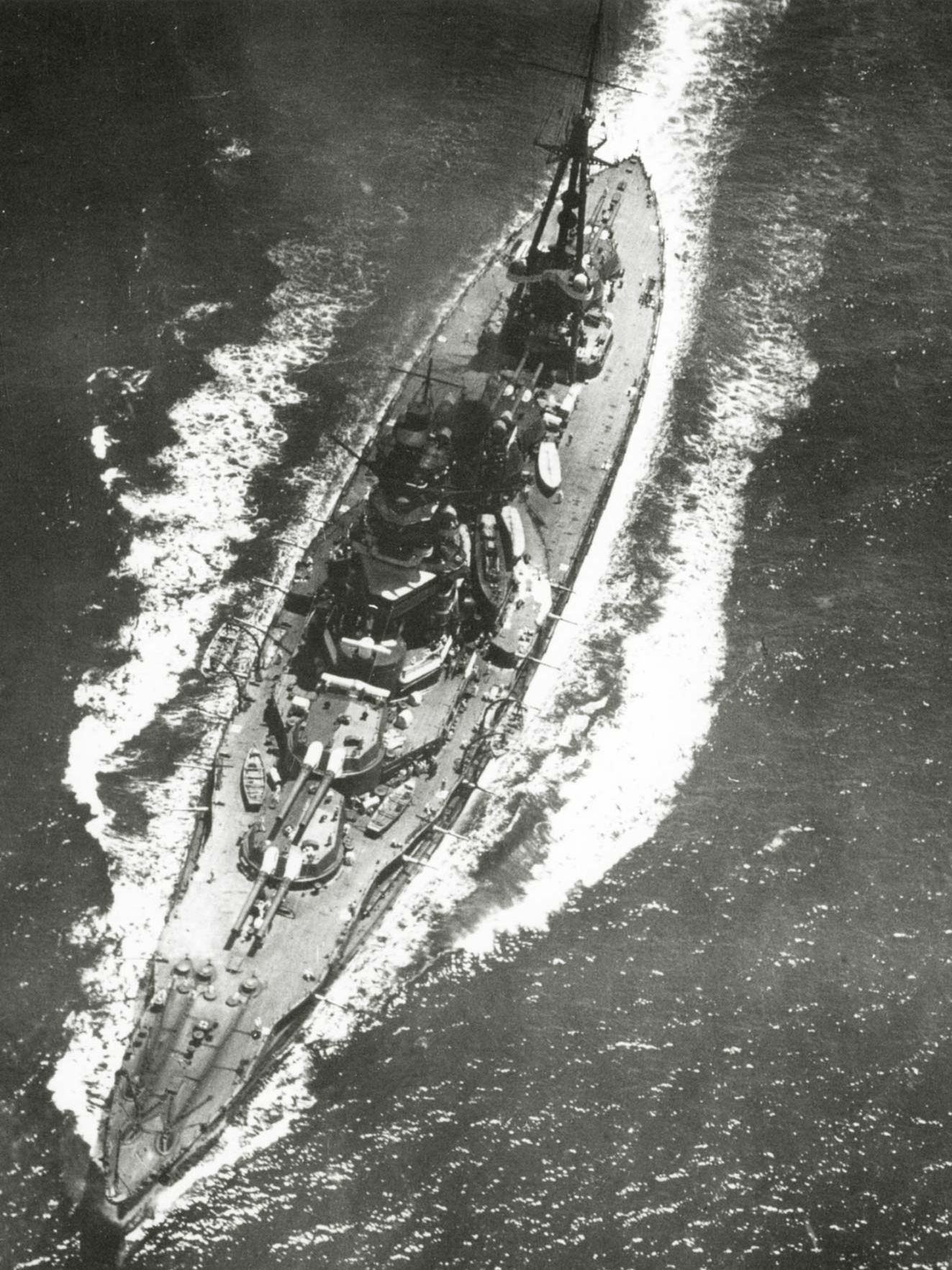 Aerial photograph of Hyūga